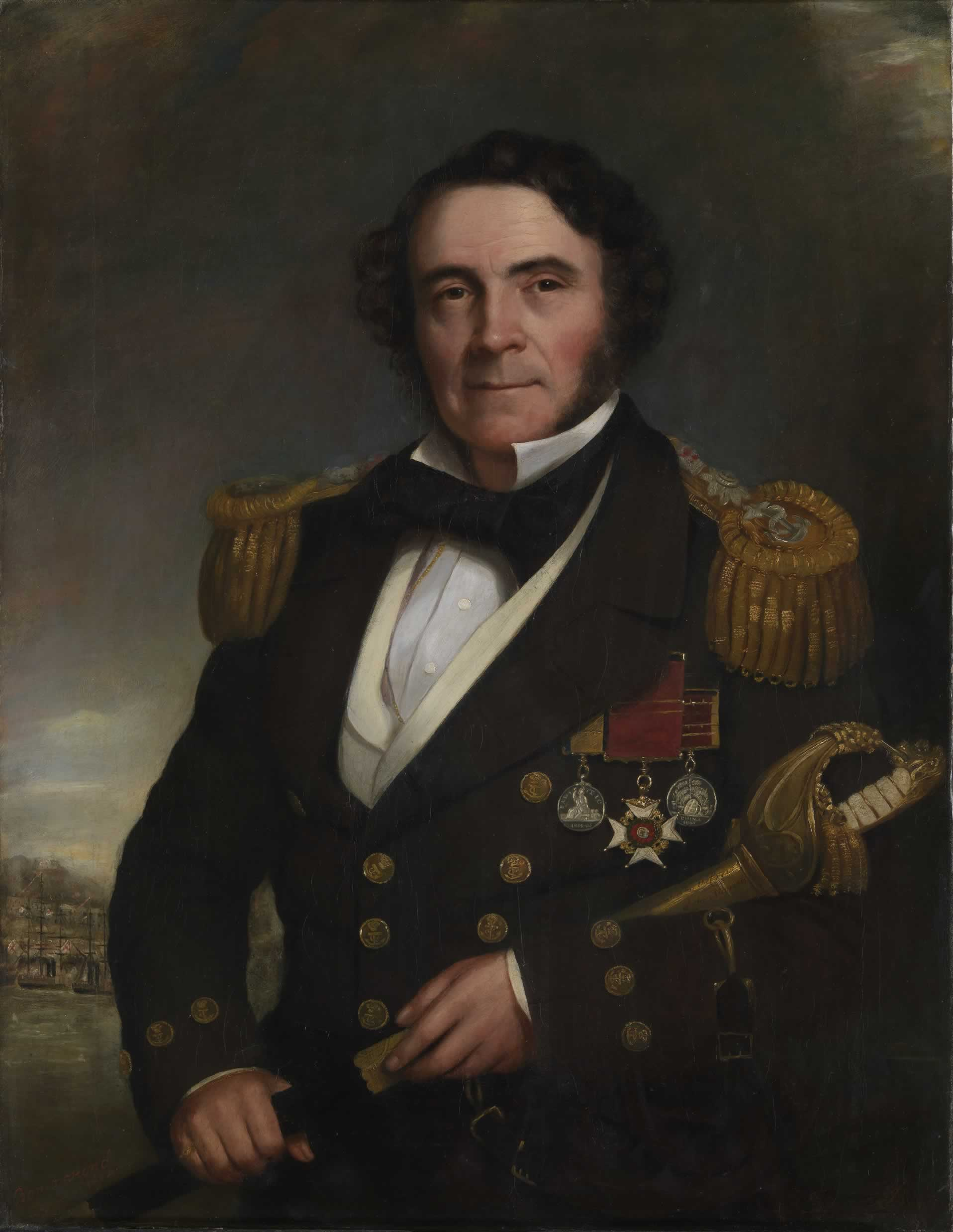 Captain Sir William Hutcheon Hall (c. 1797-1878). A half-length portrait seated very slightly to left in a captain's undress coat and epaulettes. His sword is the one presented to him by the crew of Nemesis and rests in the crook of his left arm. His right hand is gripping the scabbard. He wears his C.B. flanked by medals for China and the Baltic. In the left background is what appears to be the bombardment of Bomarsund.